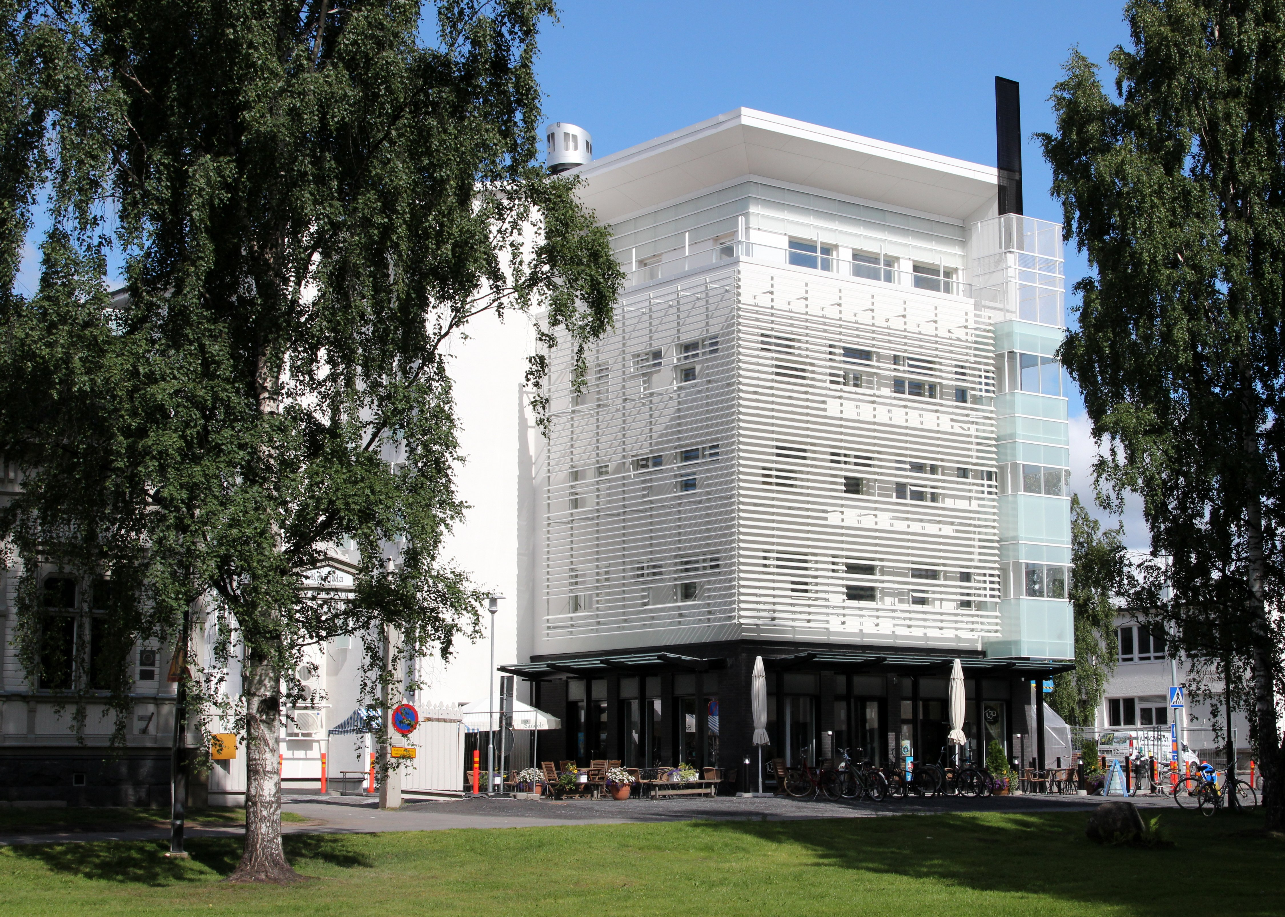 Student house Aurora with restaurant Tuba in the street level in Oulu.